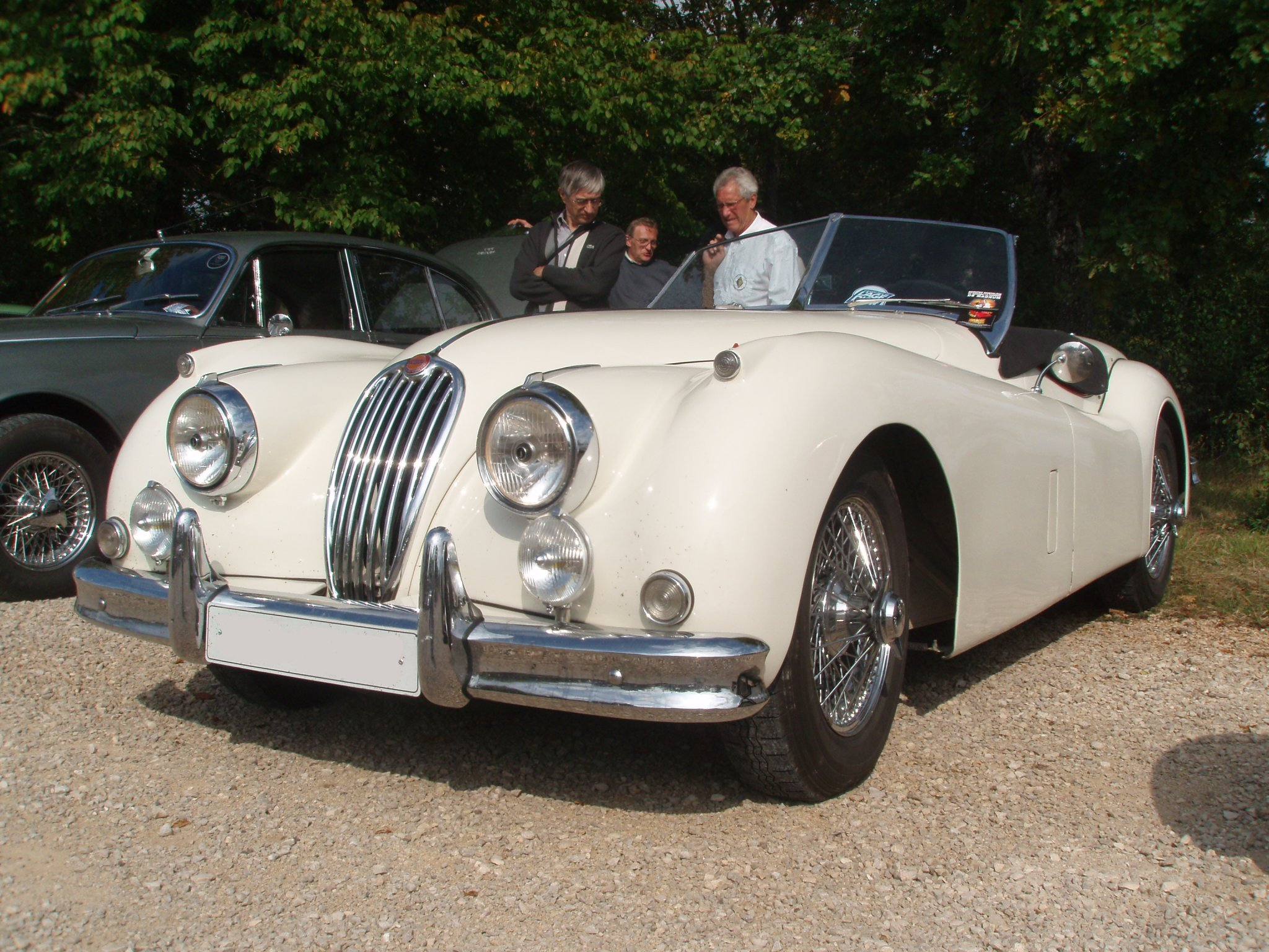 A Jaguar XK140